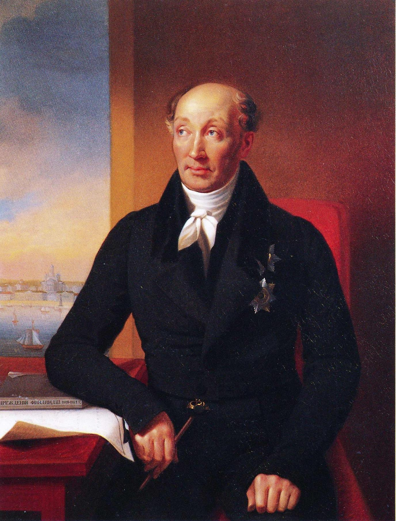 Count Mikhail Speransky, original painting by George Dawe. This copy was made in 1850 by artist Yakovlev for the Helsinki University. Speransky had been the first State Secretary for the Grand Duchy of Finland, and hence this version of the portrait contains special references to Finland: Speransky is leaning on a book called ”Institutions of Finland 1809–1812” (Uchrezhdeniya Finlyandyi) and on the left background is the cityscape of Helsinki (including Helsinki cathedral, which was completed after Speransky's death).